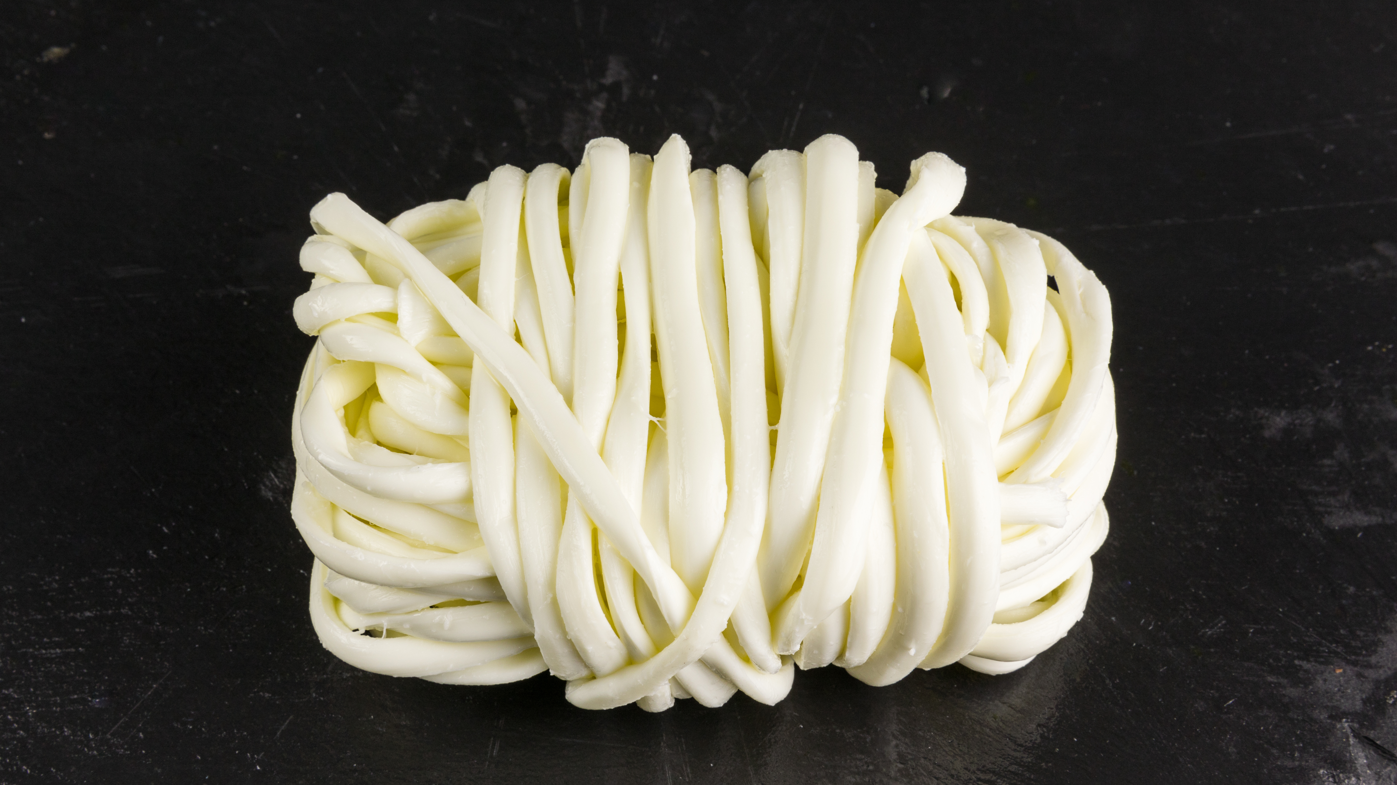 Bulgarian cheese Çecil Peyniri